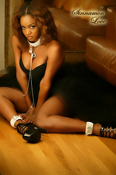 American pornographic actress/model Sinnamon Love.